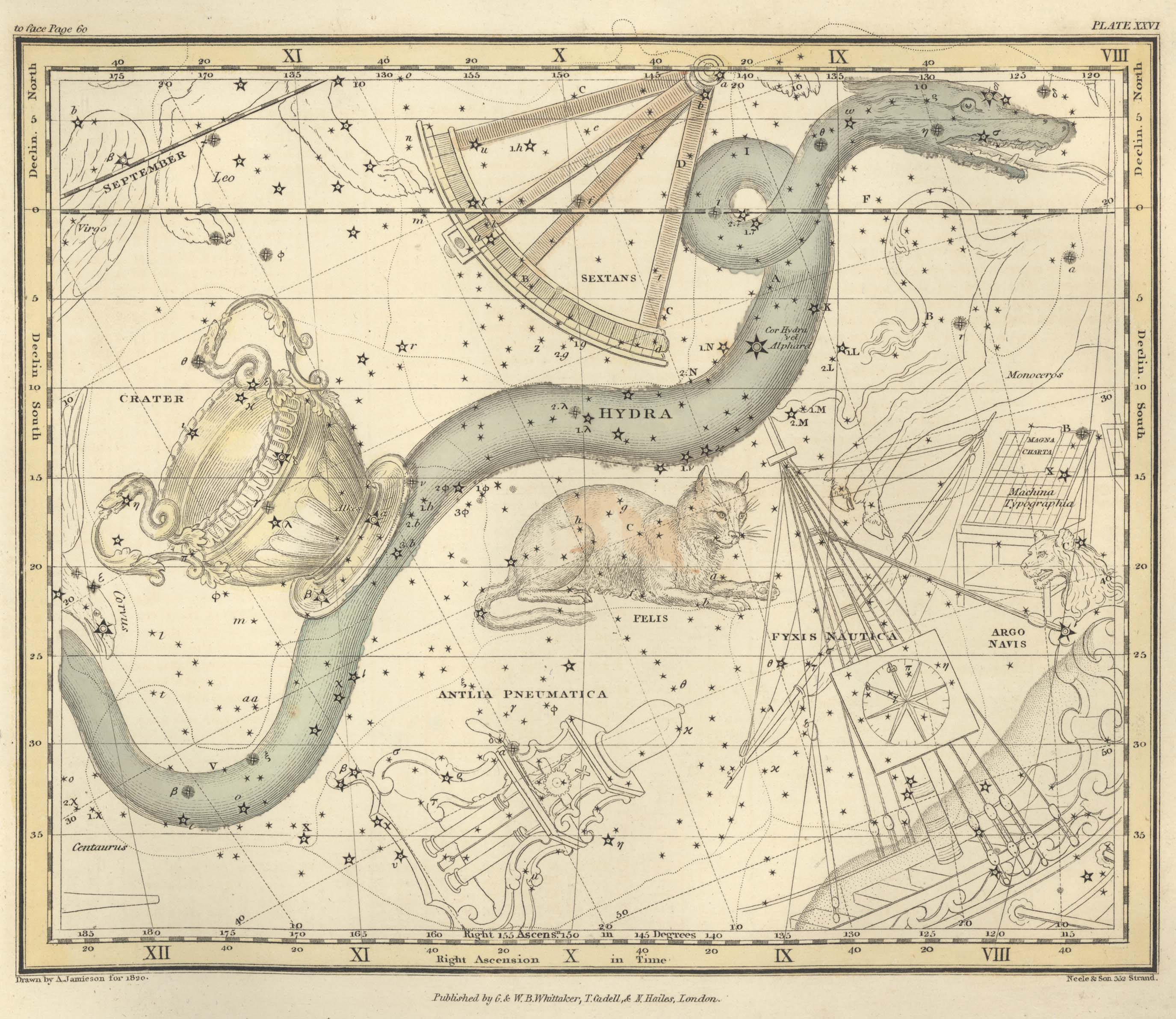 Plate 26 from A celestial atlas comprising a systematic display of the heavens in a series of thirty maps illustrated by scientific description of their contents and accompanied by catalogues of the stars and astronomical exercises